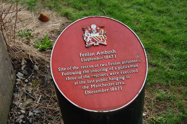 This memorial plaque has been erected beside a railway bridge on Hyde Road,Manchester,UK and commemorates the site at which on September 18th 1867, a number of prisoners were freed by force and in the conflict, a police officer was shot dead. A number of those who helped free the prisoners were later hanged. See Wikipedia article entitled Manchester Martyrs.